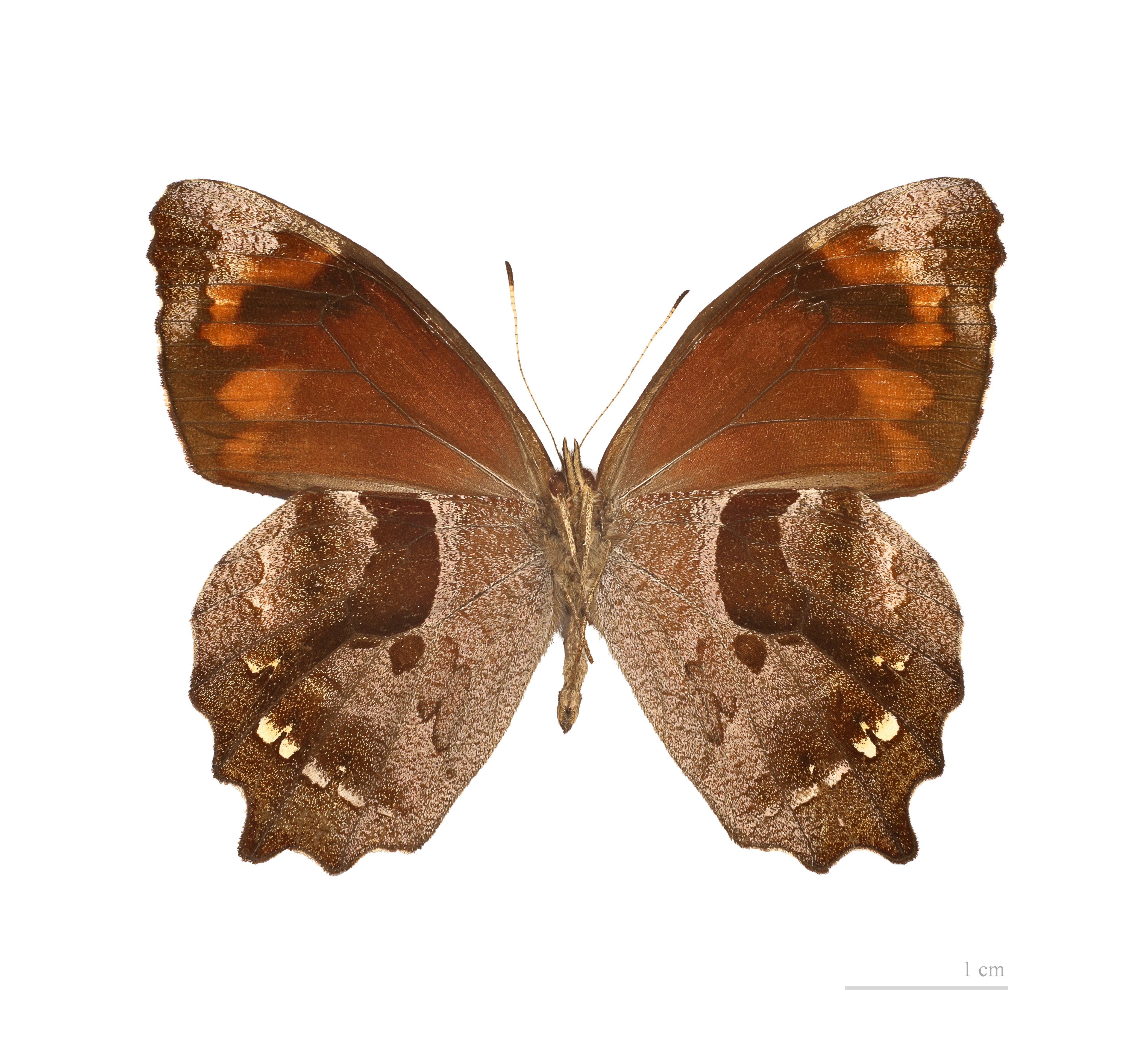 ♂ - △ Ventral side Locality:Chapare Province, Bolivia.